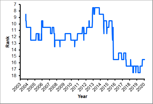 IRB World Rankings from